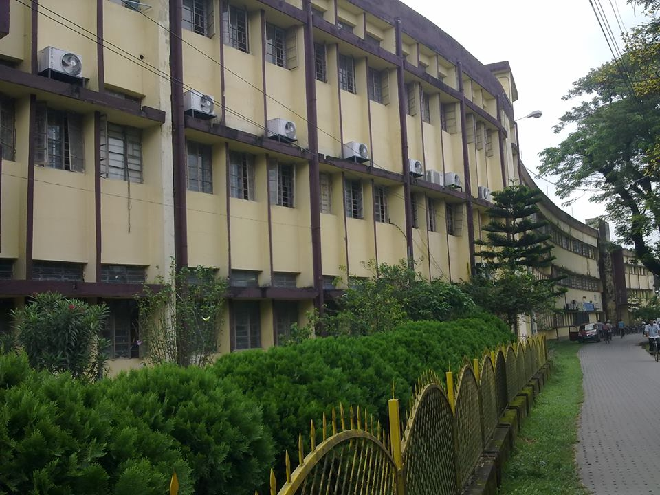 This is the side view of Central Building, JGEC